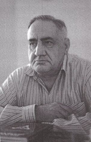 Clemente Graziani2